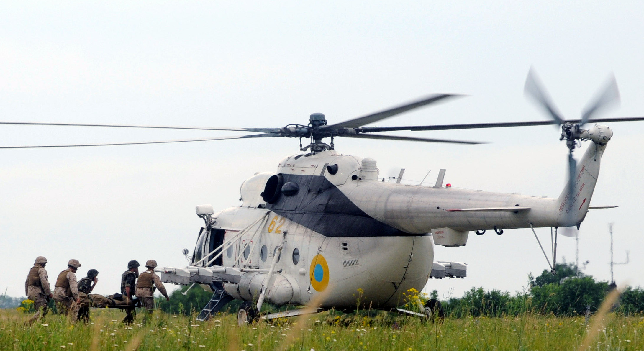 Ukrainian marines and U.S. Navy Hospital Corpsmen participate in a medical evacuation training evolution during a joint land component demonstration as part of exercise Sea Breeze 2011 in Shirokilan, Ukraine, June 11, 2011. Militaries from Azerbaijan, Algeria, Belgium, Denmark, Georgia, Germany, Macedonia, Moldova, Sweden, Turkey, Ukraine, the United Kingdom and the United States were participating in Sea Breeze, a joint/combined maritime exercise held annually in the Black Sea and at various land-based Ukrainian training facilities with the goals of strengthening maritime security and stability, sharing information and building teamwork and mutual cooperation.